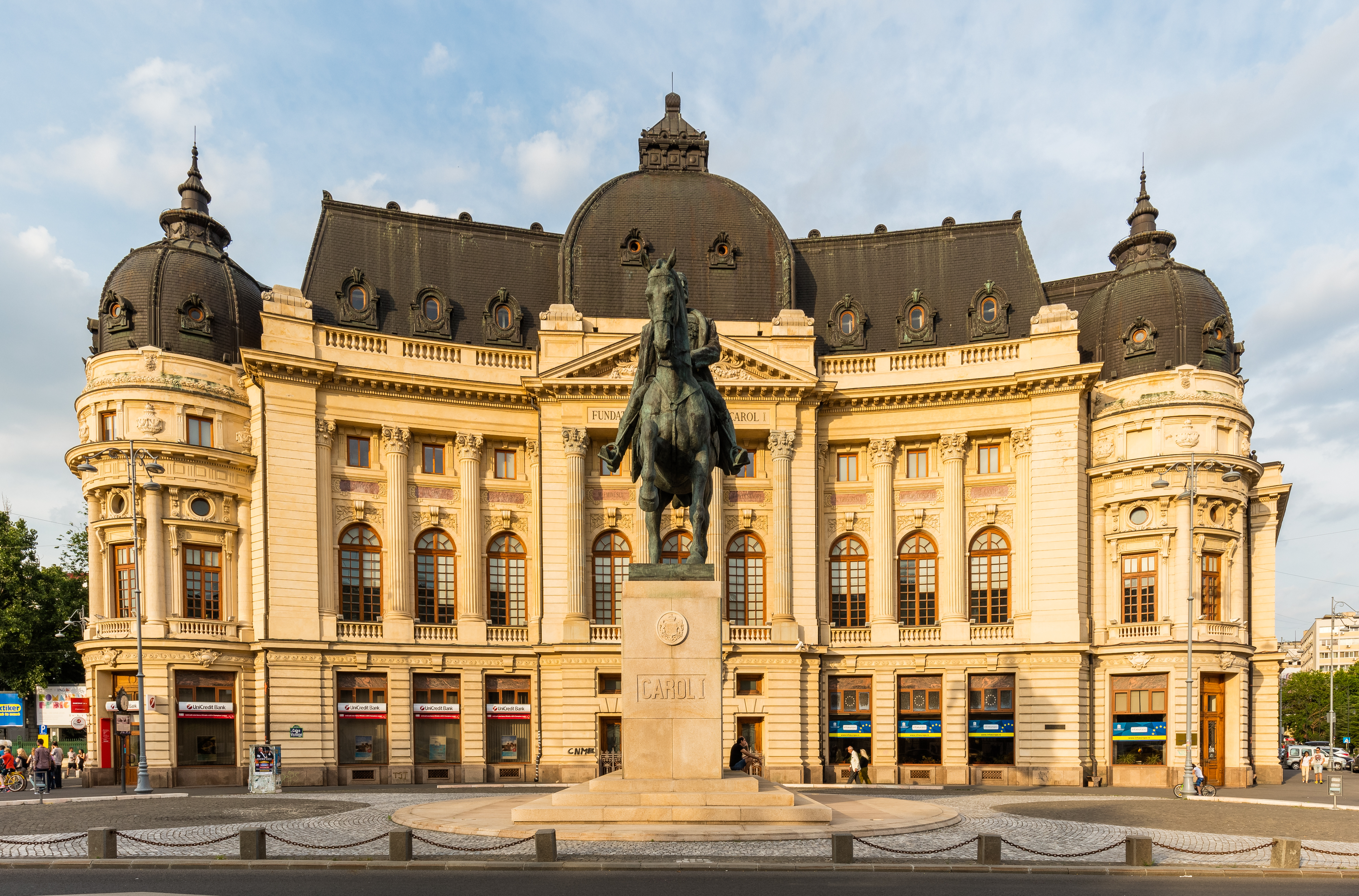 Central University Library of Bucharest, Bucharest, Romania